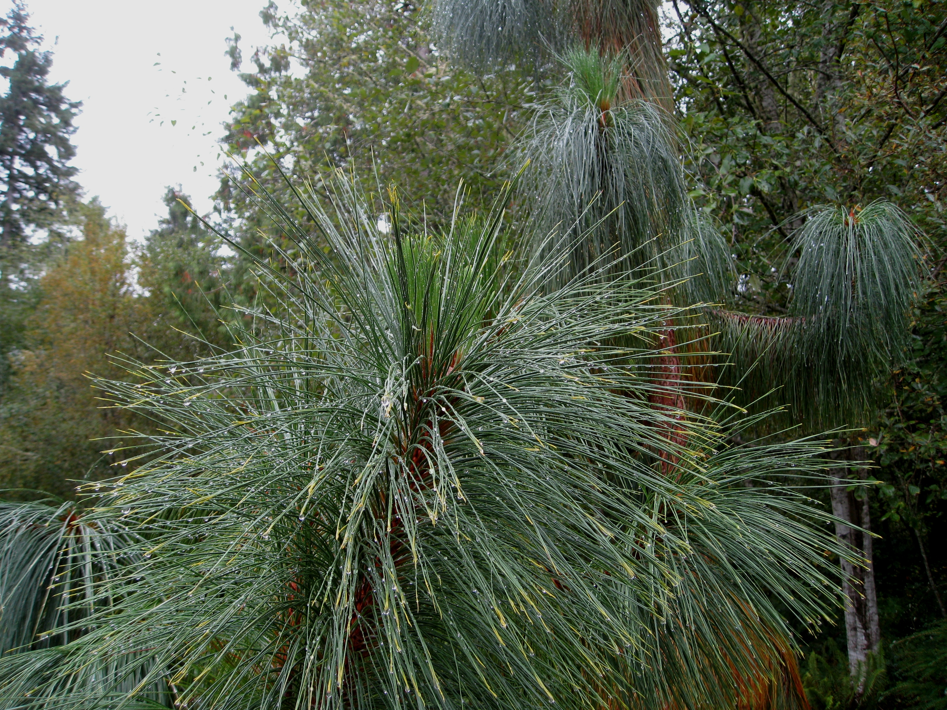 Pinus yunnanensis We visited Dan and Pat's garden near Olympia, on a rainy Saturday. They have many conifers from around the world and a great rock garden. The rain made for challenging photography, but also brought out some of the great colors of the garden.